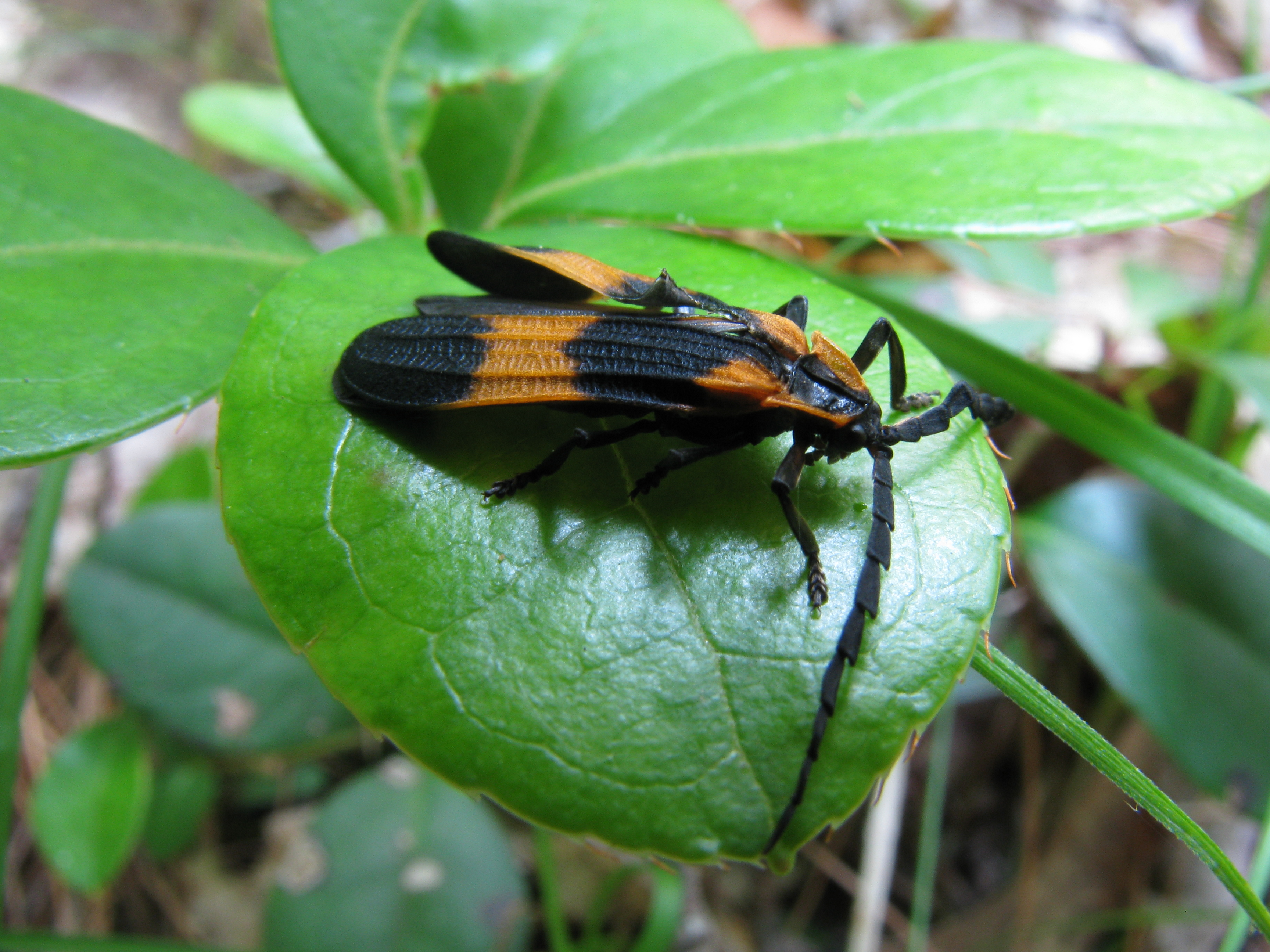 Banded Net-wing resting on Gaultheria procumbens (Wintergreen).